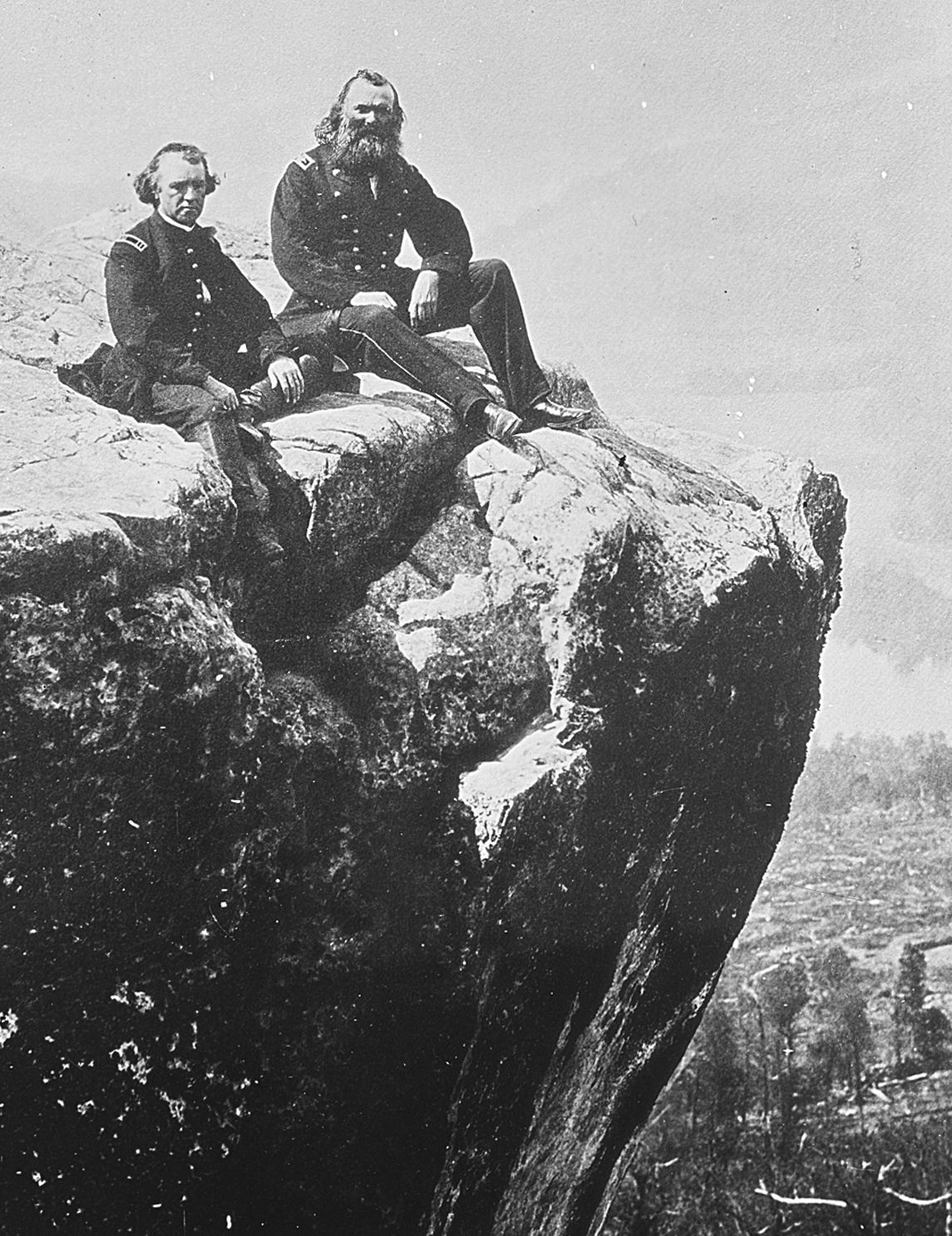 Daniel C. McCallum and Capt. Hurlbert on Lookout Mountain, 1860-65